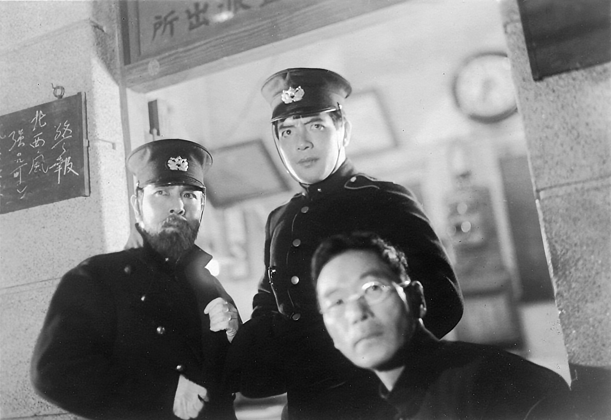 Taisuke Matsumoto and Isamu Kosugi in Keisatsukan (警察官) directed by Tomu Uchida - 1933